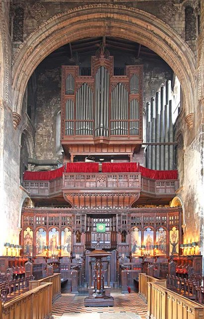 St Bartholomew the Great, West Smithfield, London EC1 - Pulpitum & organ